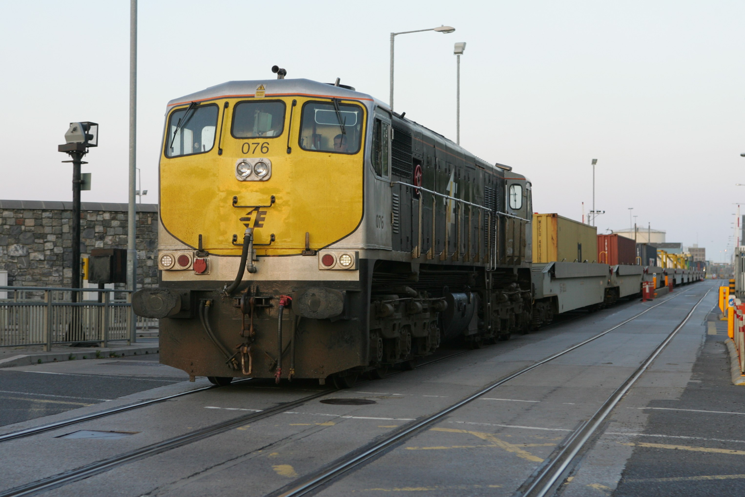 076 with a liner train Alexandra Road